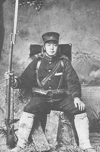 IJA(Imperial Japanese Army) Soldier in 1894